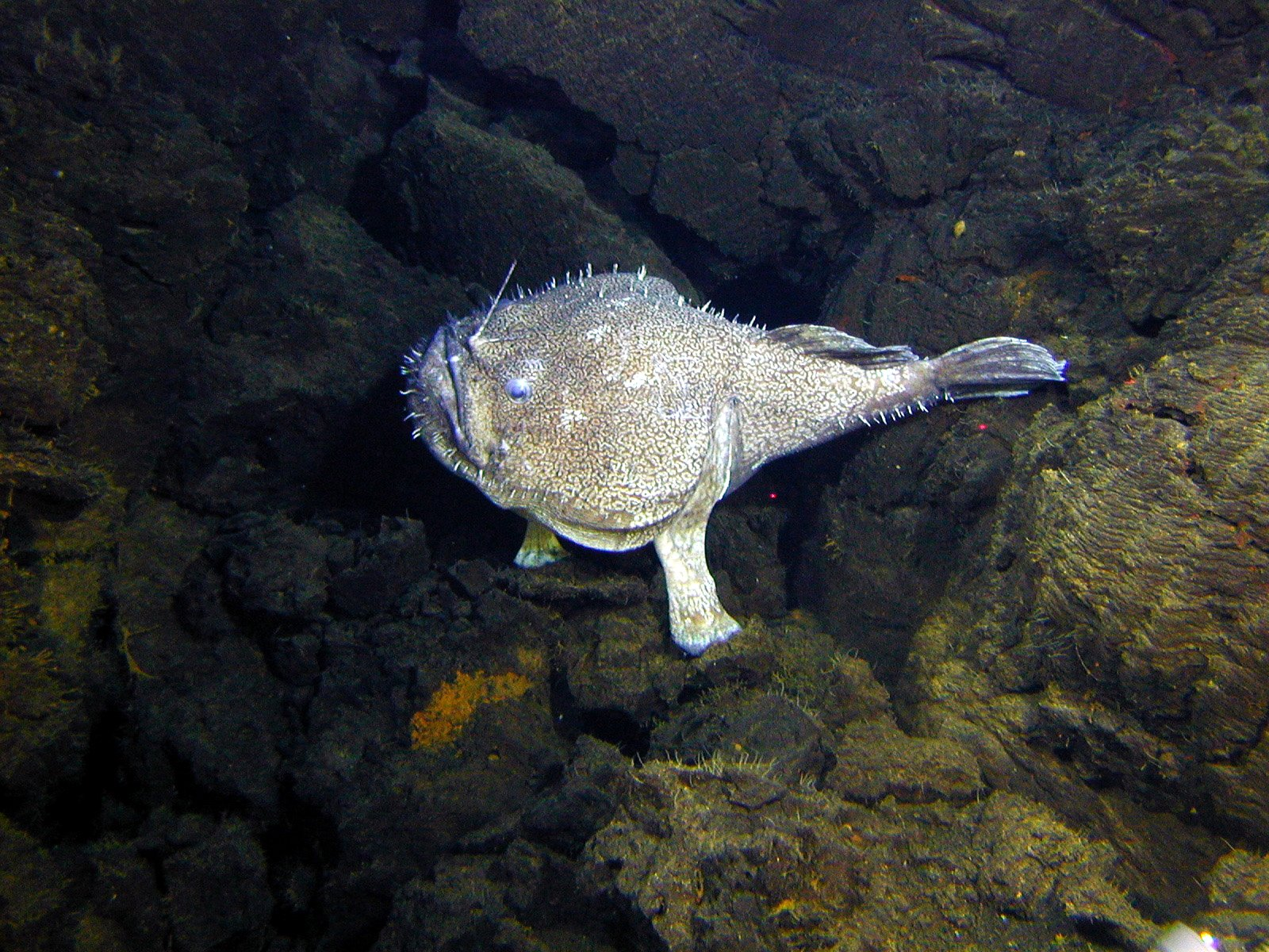 An angler fish lies in wait on young lava flows from Volcano W. This species was previously unknown to inhabit New Zealand waters. Image ID: expl1855, Voyage To Inner Space - Exploring the Seas With NOAA Collect Location: New Zealand, Kermadec Arc Photo Date: 2005 April 22 Credit: New Zealand-American Submarine Ring of Fire 2005 Exploration; NOAA Vents Program